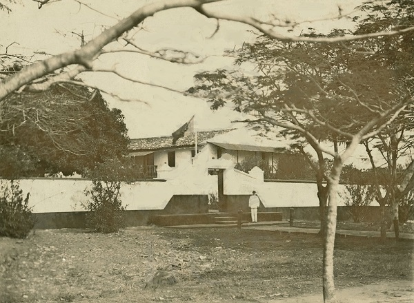 Photo from 1917 showing a Portuguese official standing at the entrance of the Portuguese fort of São João Baptista de Ajudá at Ouidah, Dahomey (now Republic of Bénin).